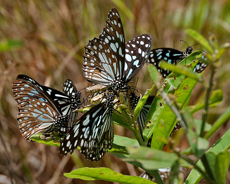 Blue Tiger Tirumala limniace & Dark Blue Tiger Tirumala septentrionis on Rattleweed [Crotalaria retusa] at Talakona forest, in Chittoor District of Andhra Pradesh, India.